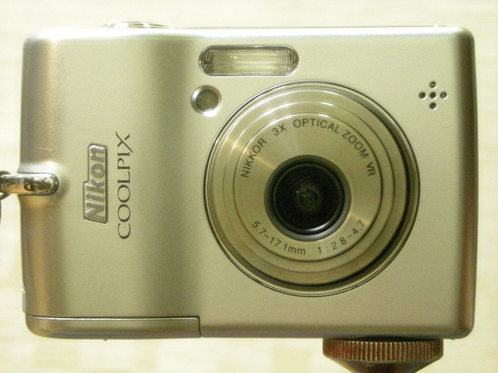 Nikon's compact digital camera Coolpix L12. Purchased on 2007-07-02. This picture was taken toward a mirror by itself.